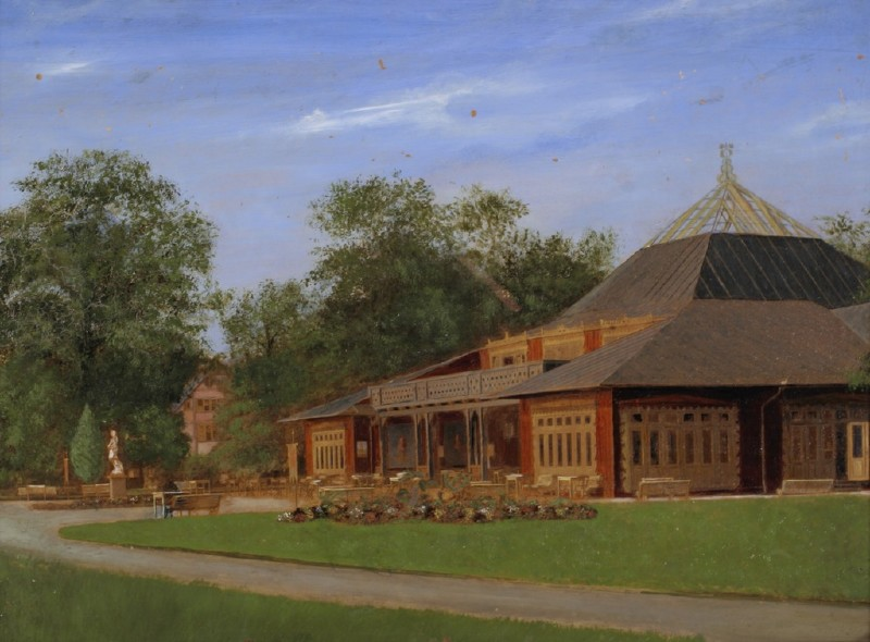 Klampenborg Koncertsal at Klampenborg Badeanstalt in Copenhagen, Denmark. Demolished.